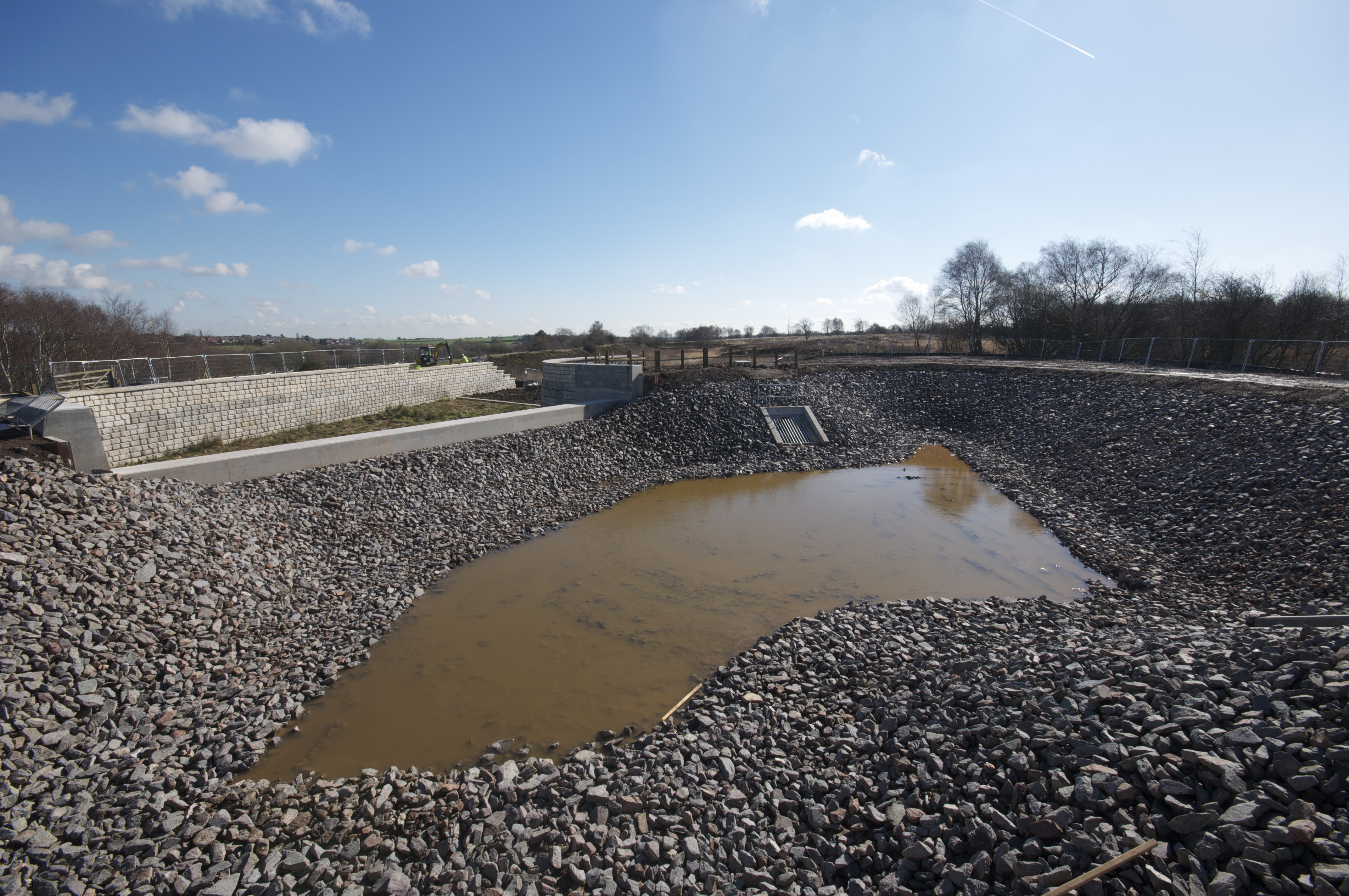 The new overflow pool and weir at Chasewater Reservoir in 2012.